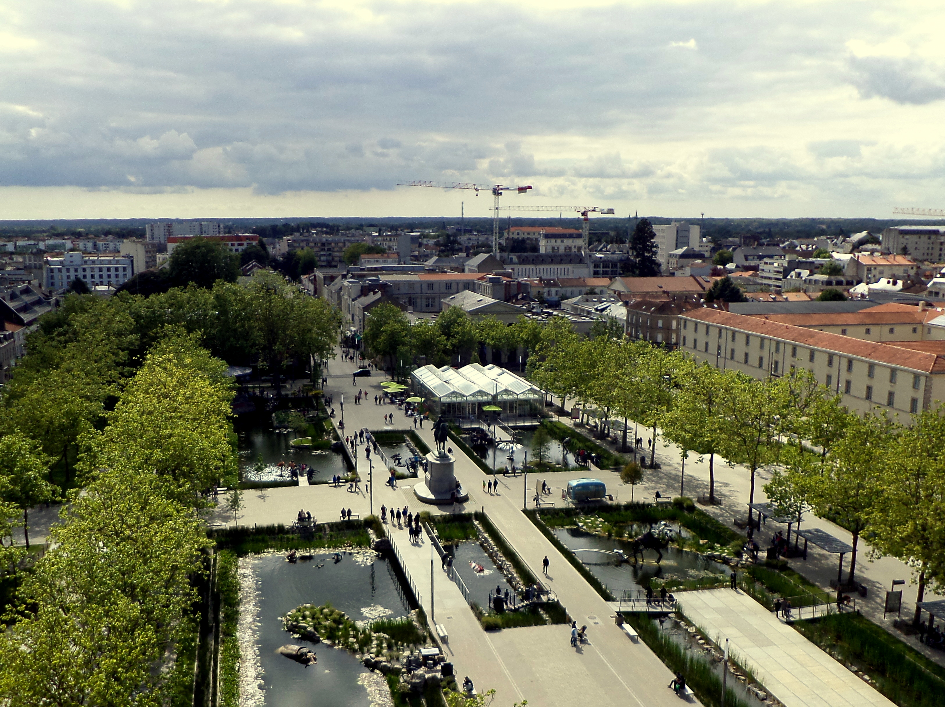 View of Napoleon square. La Roche-sur-Yon / Vendée / France.